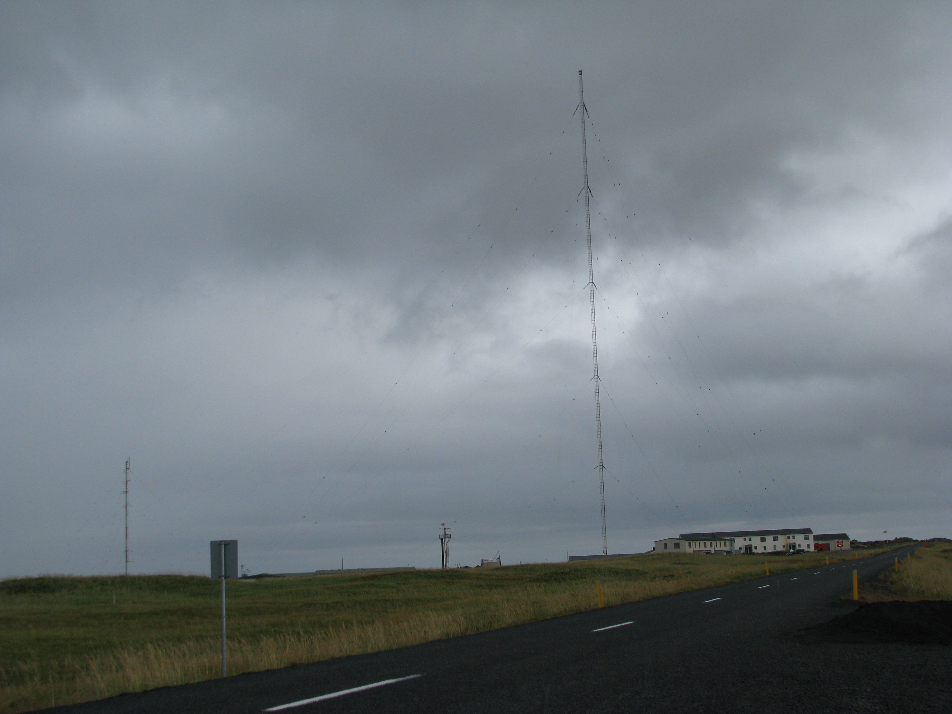 Gufuskálar, a long-wave broadcast station on Iceland.